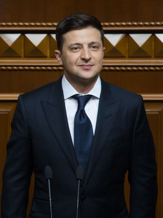 Volodymyr Zelensky presidential inauguration, 20th May 2019